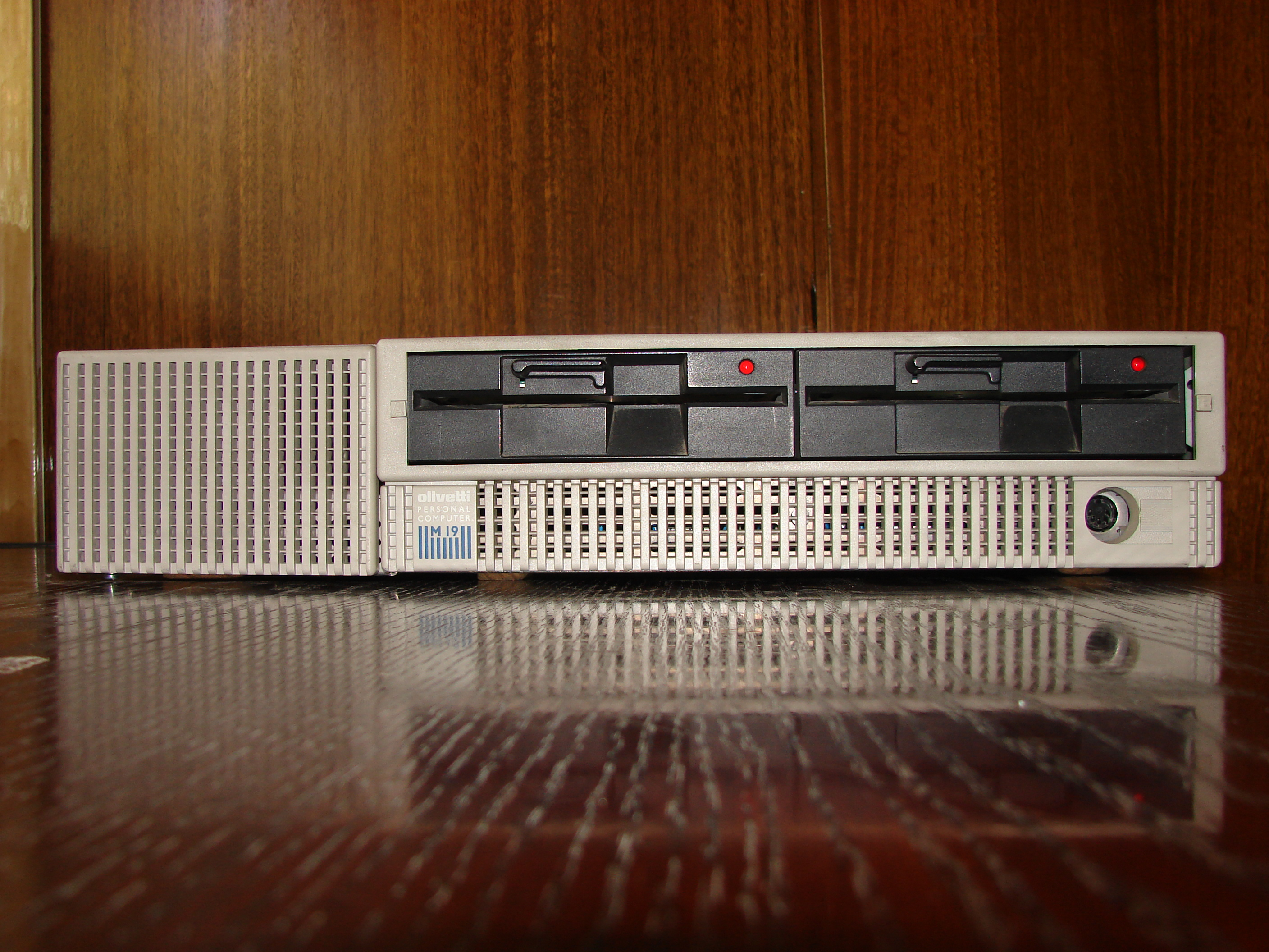 Front view of Olivetti M19 personal computer without monitor or keyboard